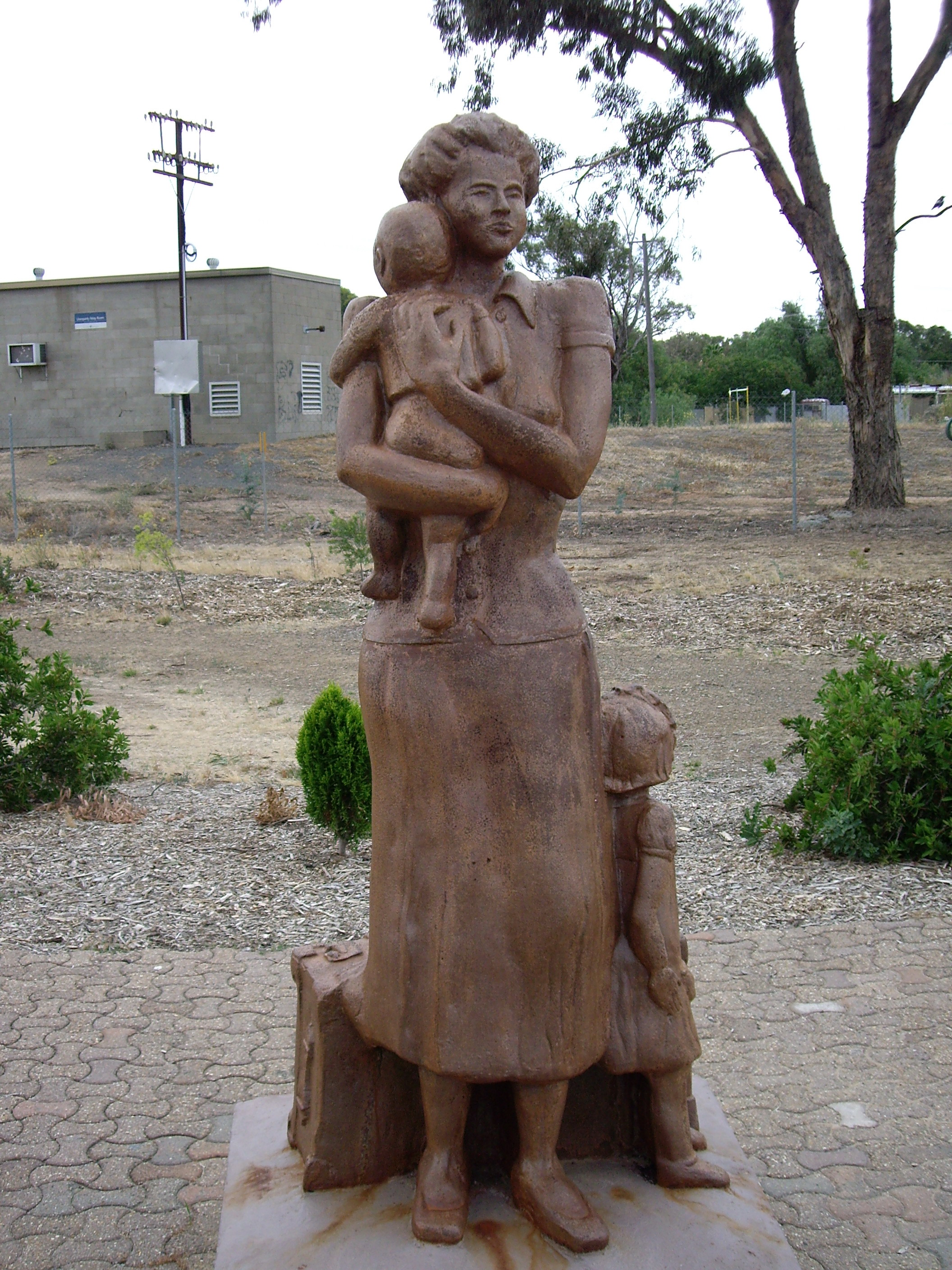 Kaia monument which commemorates the Uranquinty Migrant Centre community between 1948 - 1952. The monument was was created by Canny Kinloch, casted by the Wagga Iron Foundry and placed in public display on 14 April 2001.